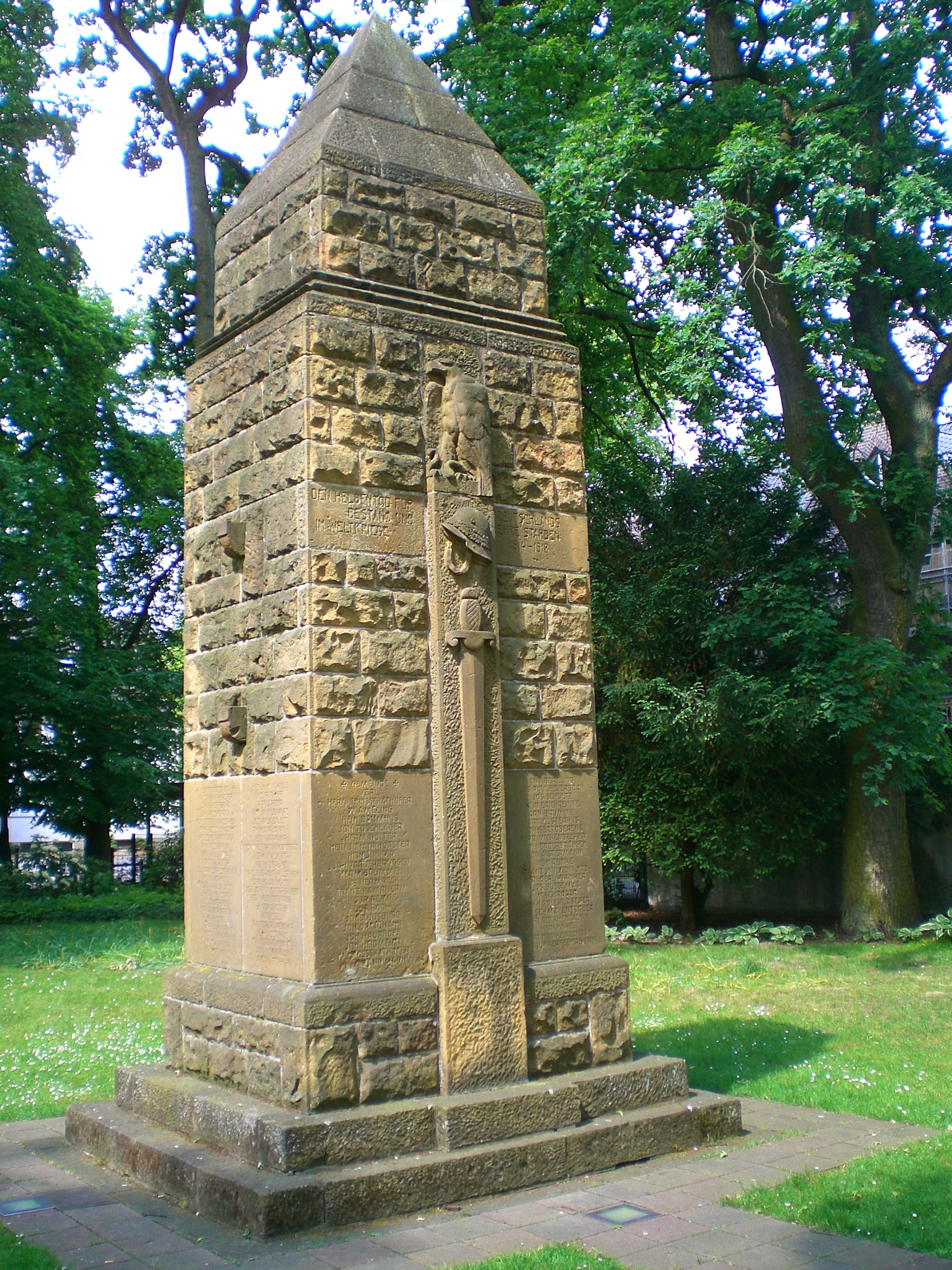 Cenotaph for the soldier killed in the First World War in Verl.